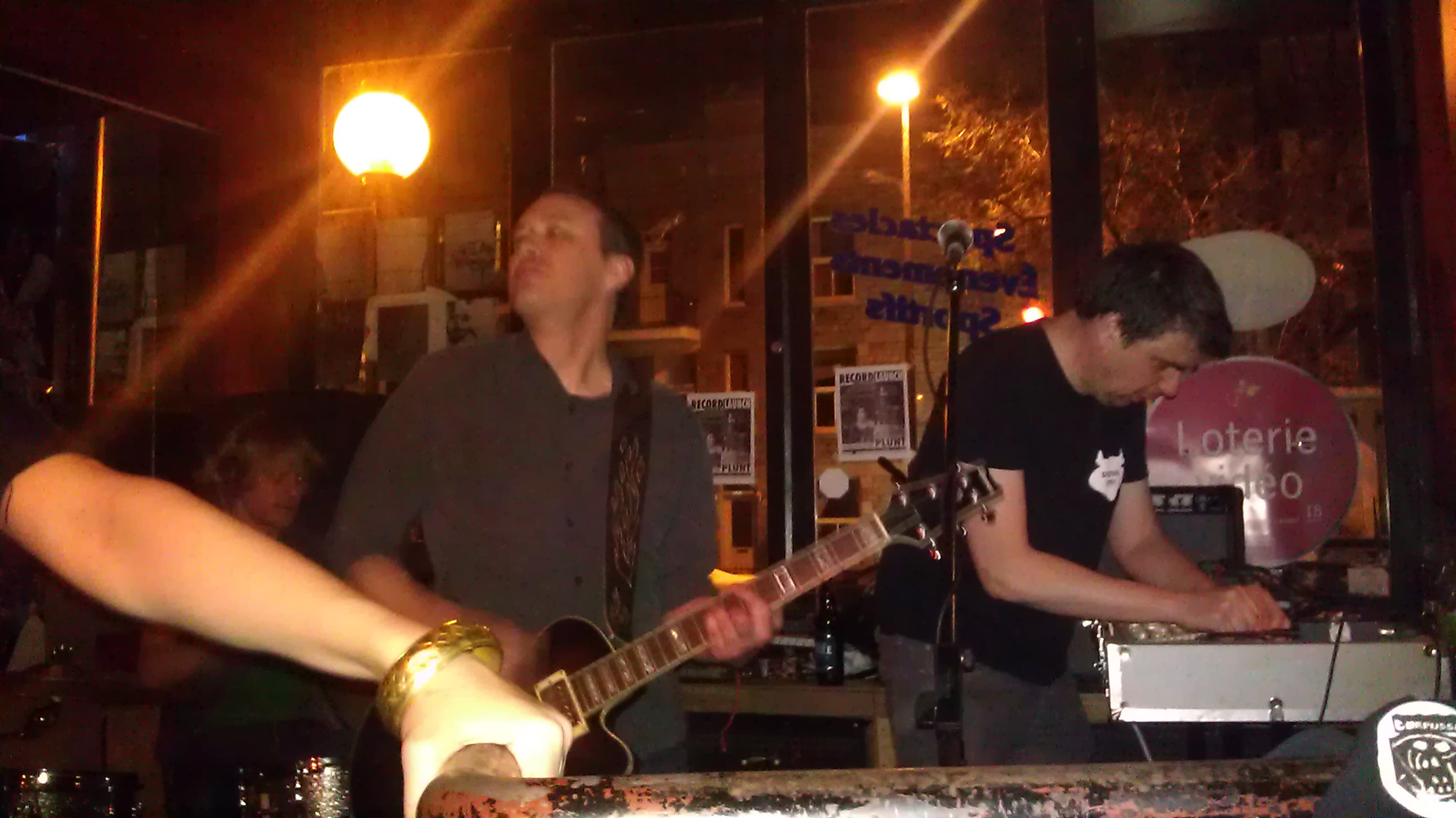 Les Temps Liquides photographed in Montreal, Quebec, Canada inside Bistro Paris.